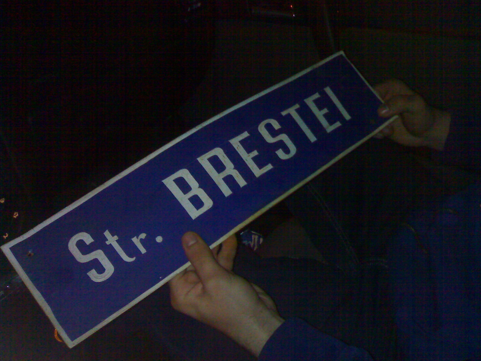 str brestei sign